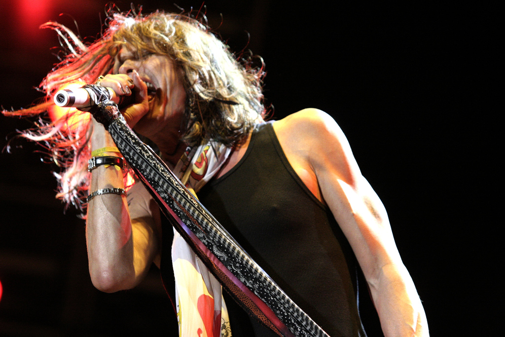 Aerosmith - Steven_Tyler